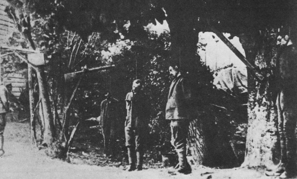 Executed Czech and Slovak legionnaires in Davanzo